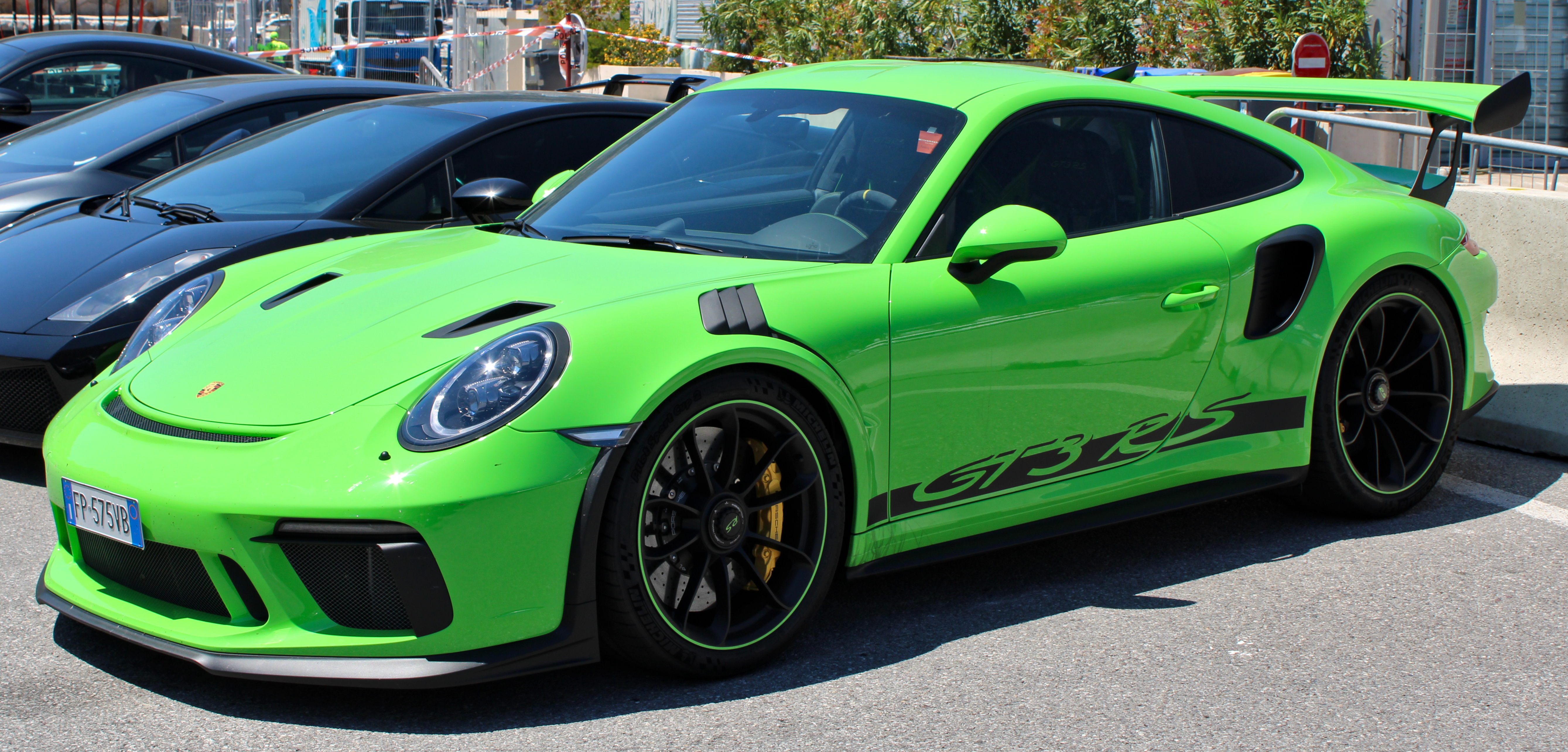 Porsche 991.2 GT3 RS in Monaco